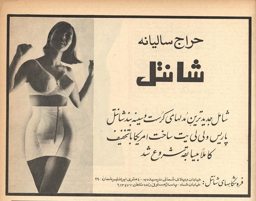 Chantelle Lingerie - Annual Auction -Magazine ad - Zan-e Rooz, Issue 303 - 16 January 1971